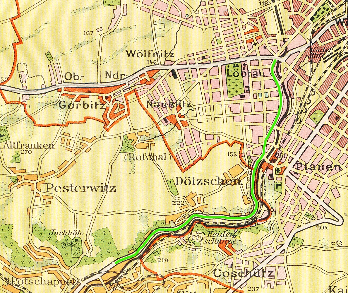 This is a part of an old atlas. It does not necessarily represent the current situation.